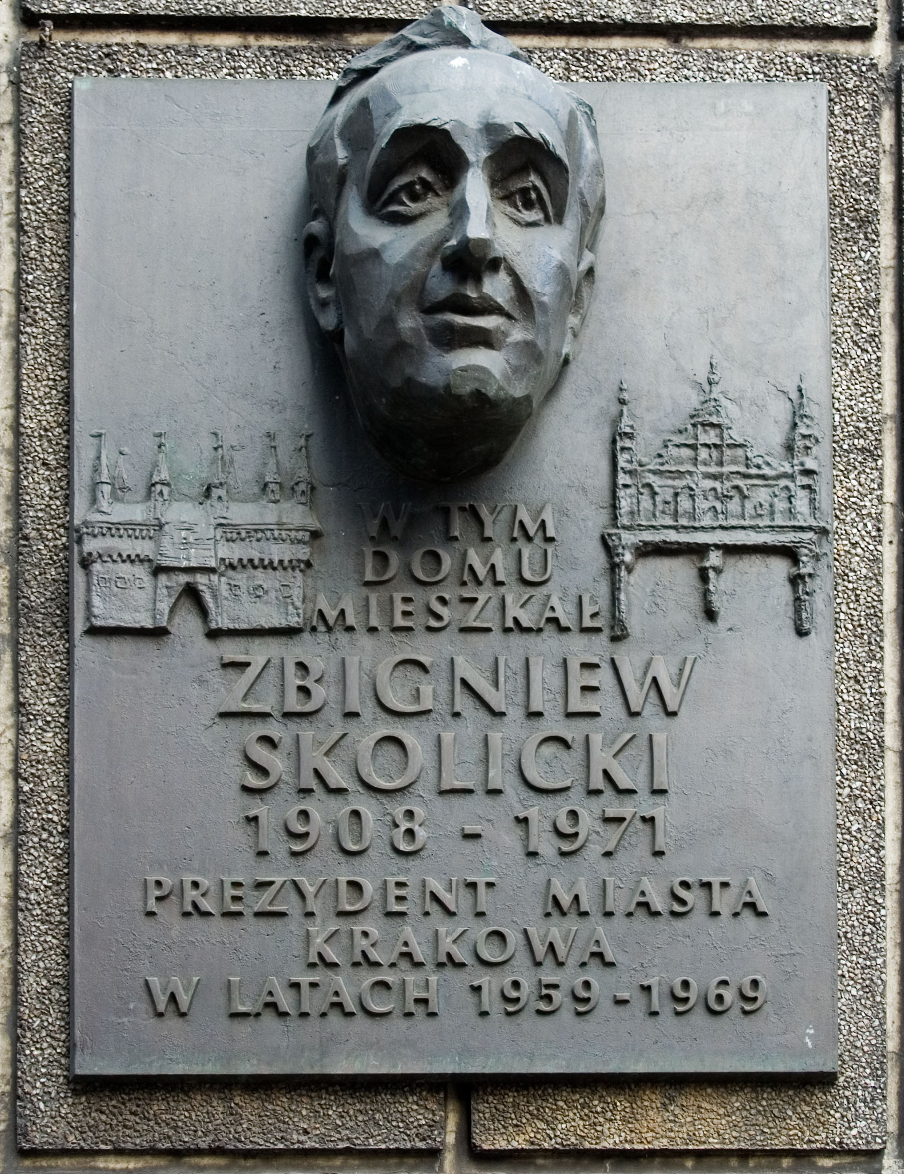 Memorial of Zbigniew Skolicki, mayor of Kraków 1959-1969, Kraków, Poland